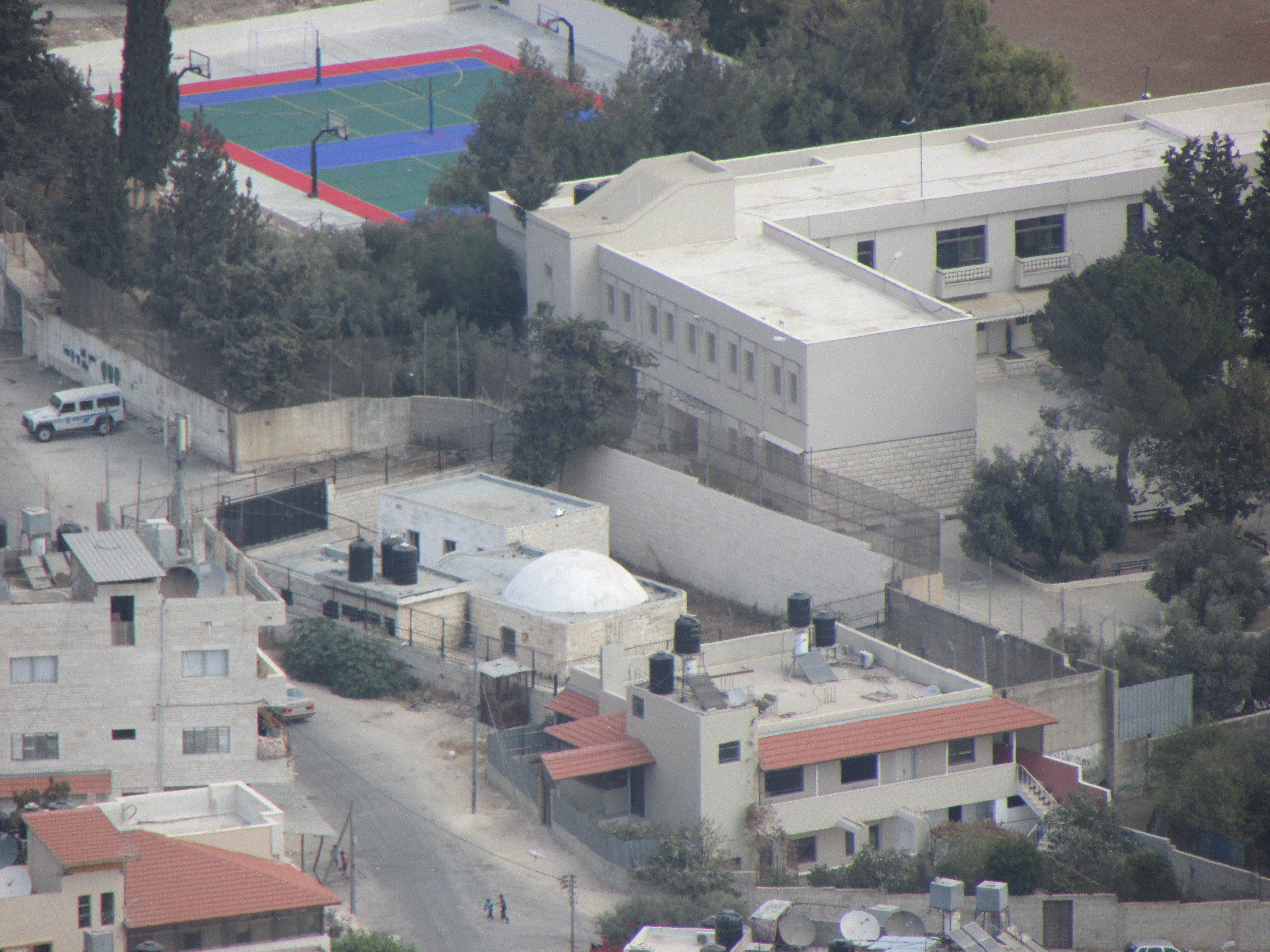 Joseph's Tomb from Mitzpe Yosef.